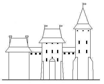 Castle in Bytom - view from south